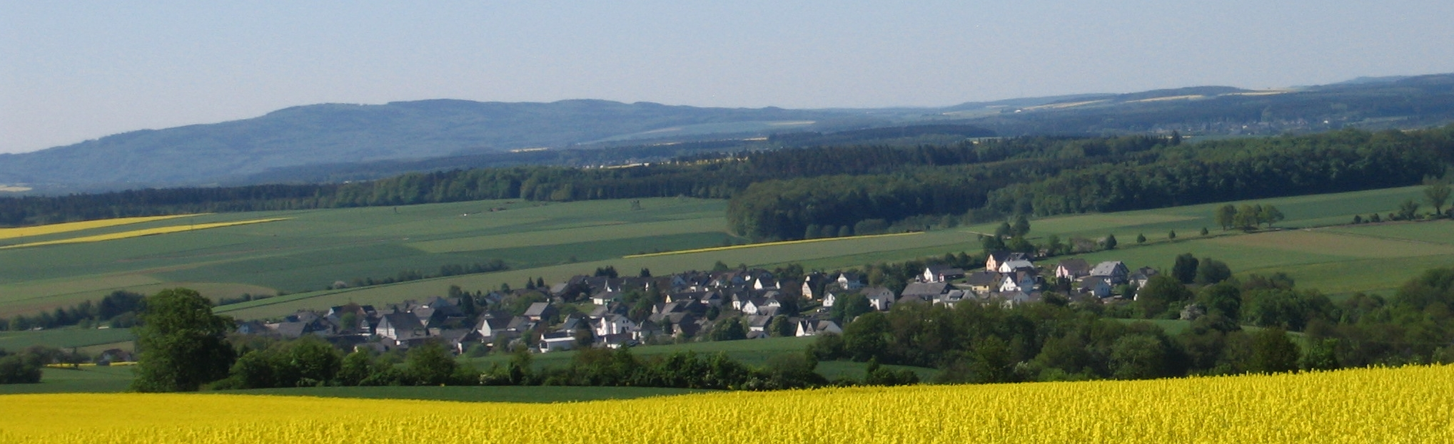 Village Külz in the Hunsrück landscape.